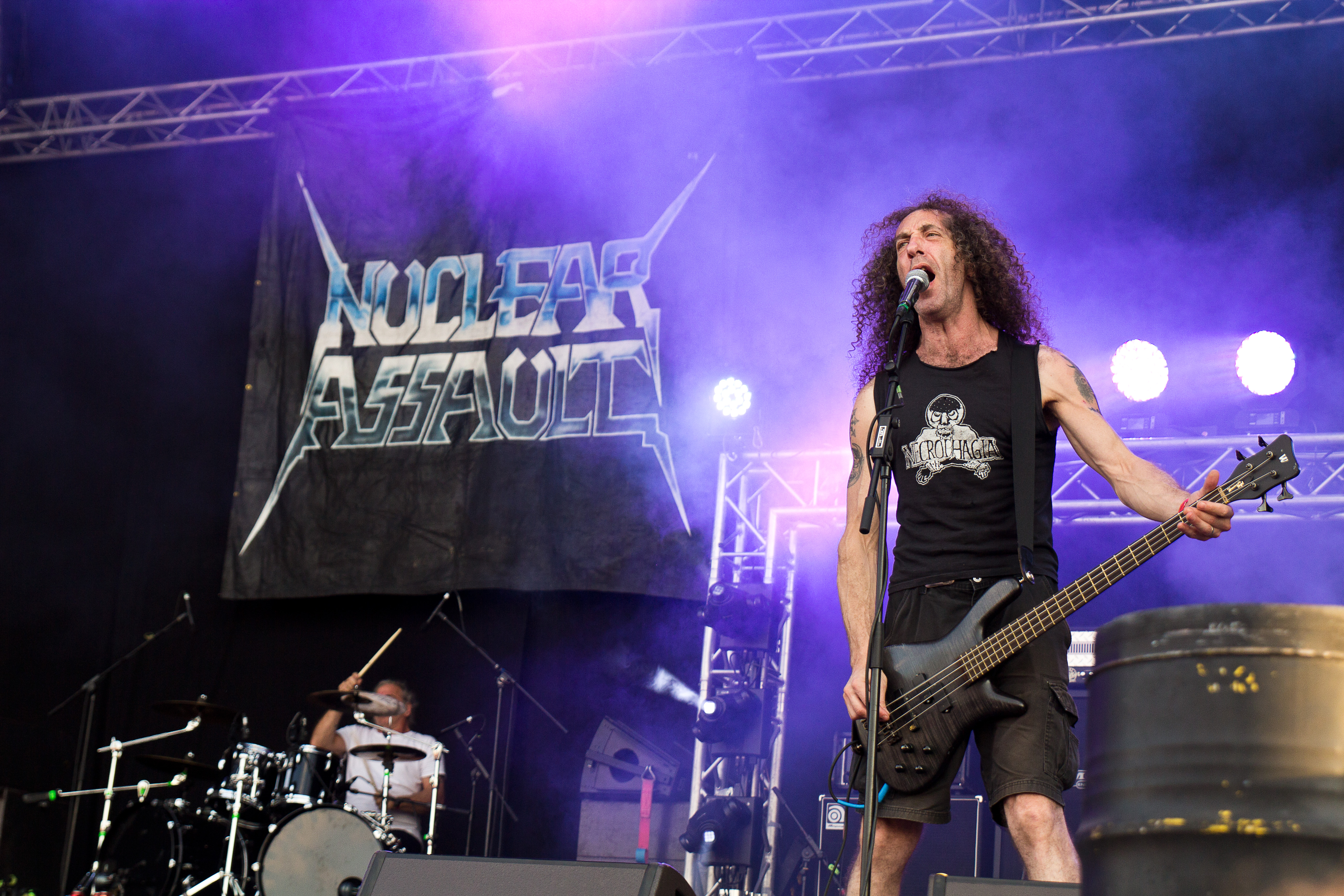 The US thrash metal band Nuclear Assault at the Party.San Open Air 2015 in Obermehler-Schlotheim/Germany.